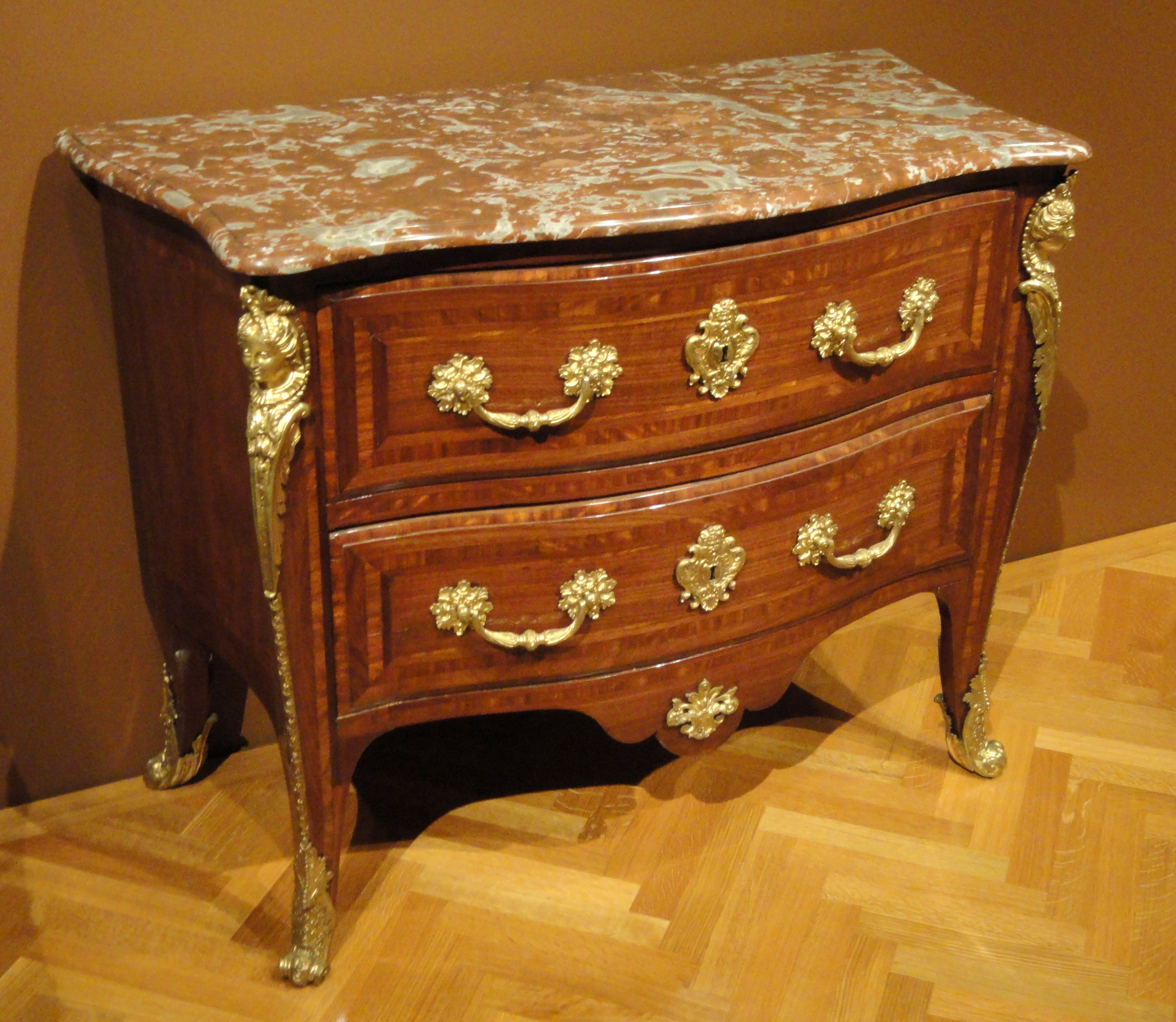 Exhibit in the Cleveland Museum of Art, Cleveland, Ohio, USA. This artwork is old enough so that it is in the public domain.